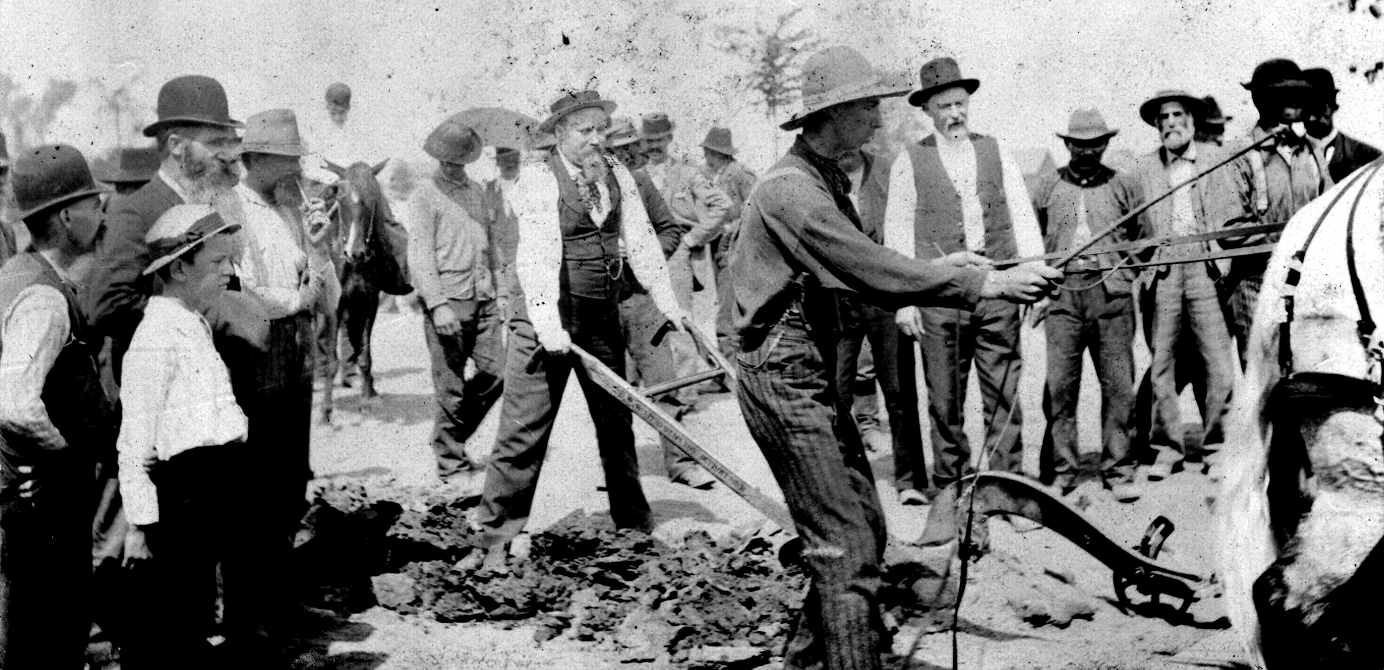 Group of people posed around horse team with plough, breaking ground for the Grand Boulevard, Detroit, Michigan. Mayor Hazen Pingree at the plough. Handwritten on mat back: "Aug. 10, 1891."